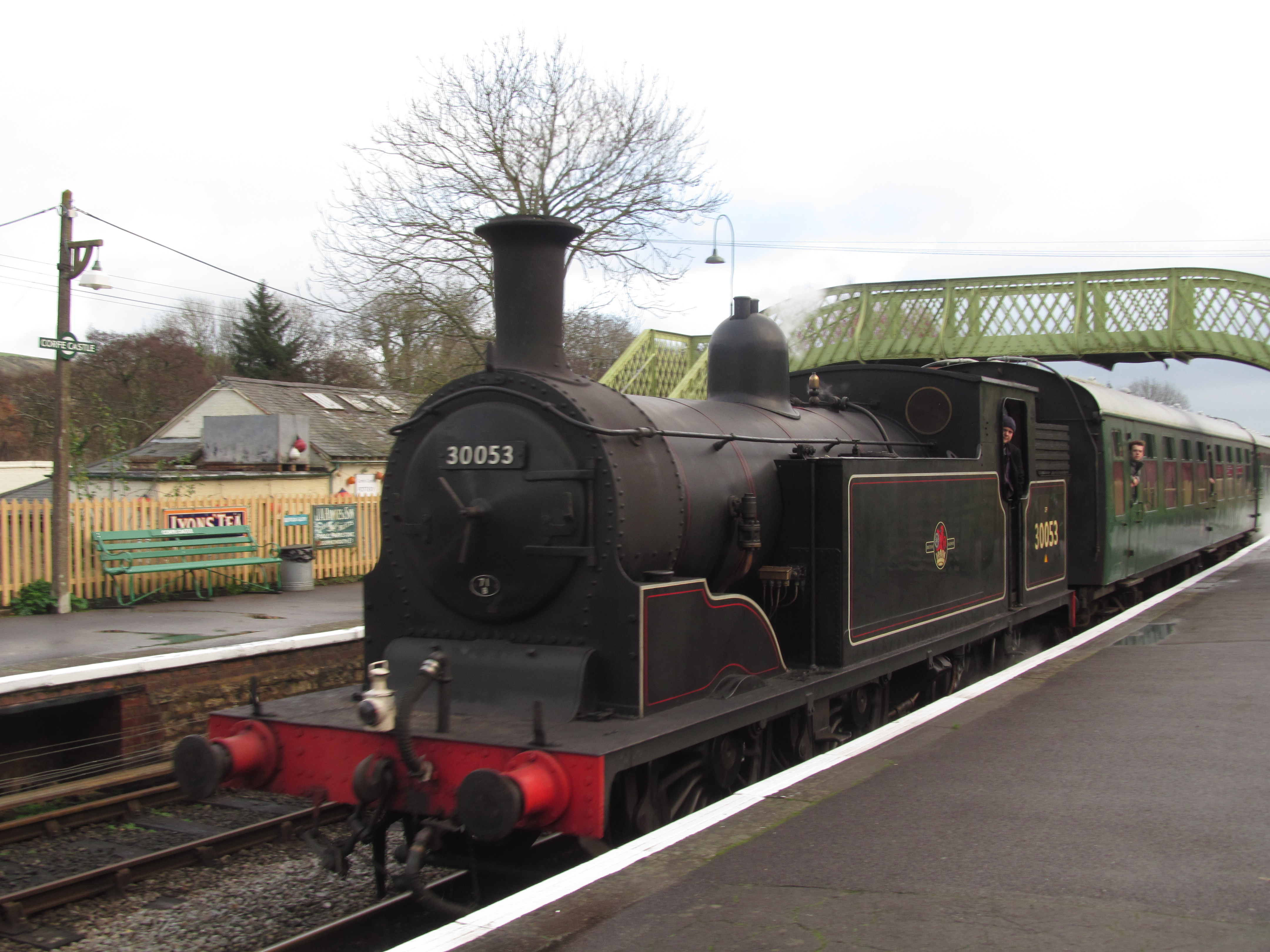 Preserved LSWR M7 class No. 30053 at Corfe Castle railway station